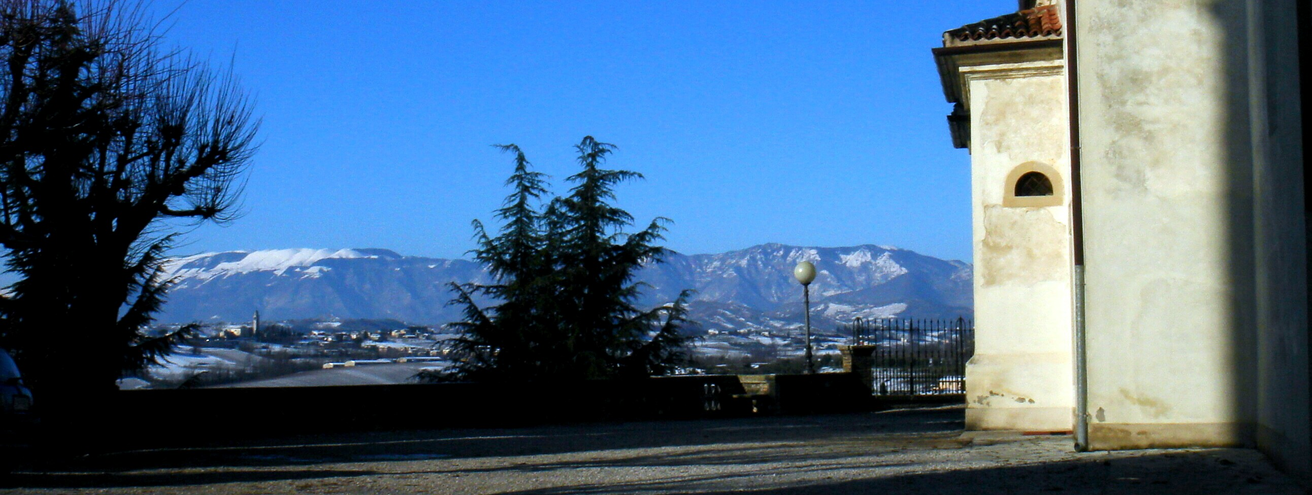 Castello Roganzuolo (Treviso, Italy), panoramic view (with Ogliano) from the terrace of the church.